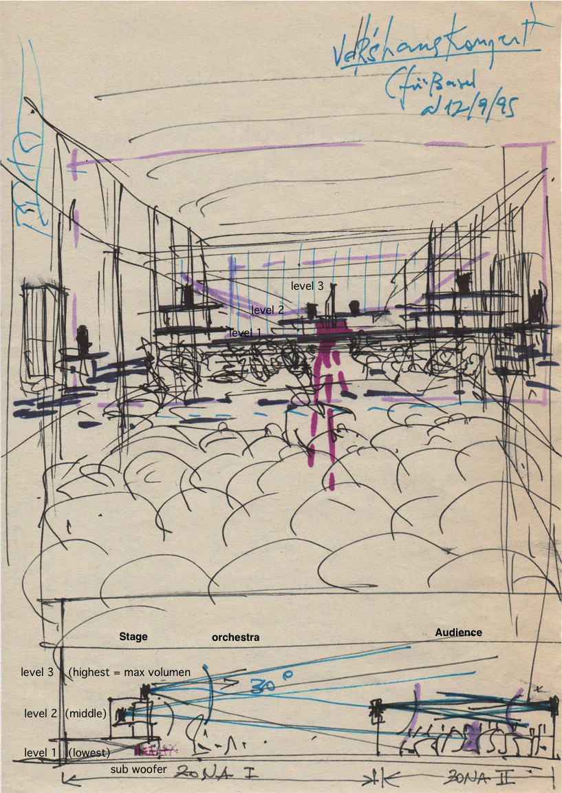 Bernardo Kuczer, Basel, "Volkshaus", 1995, Space Concept